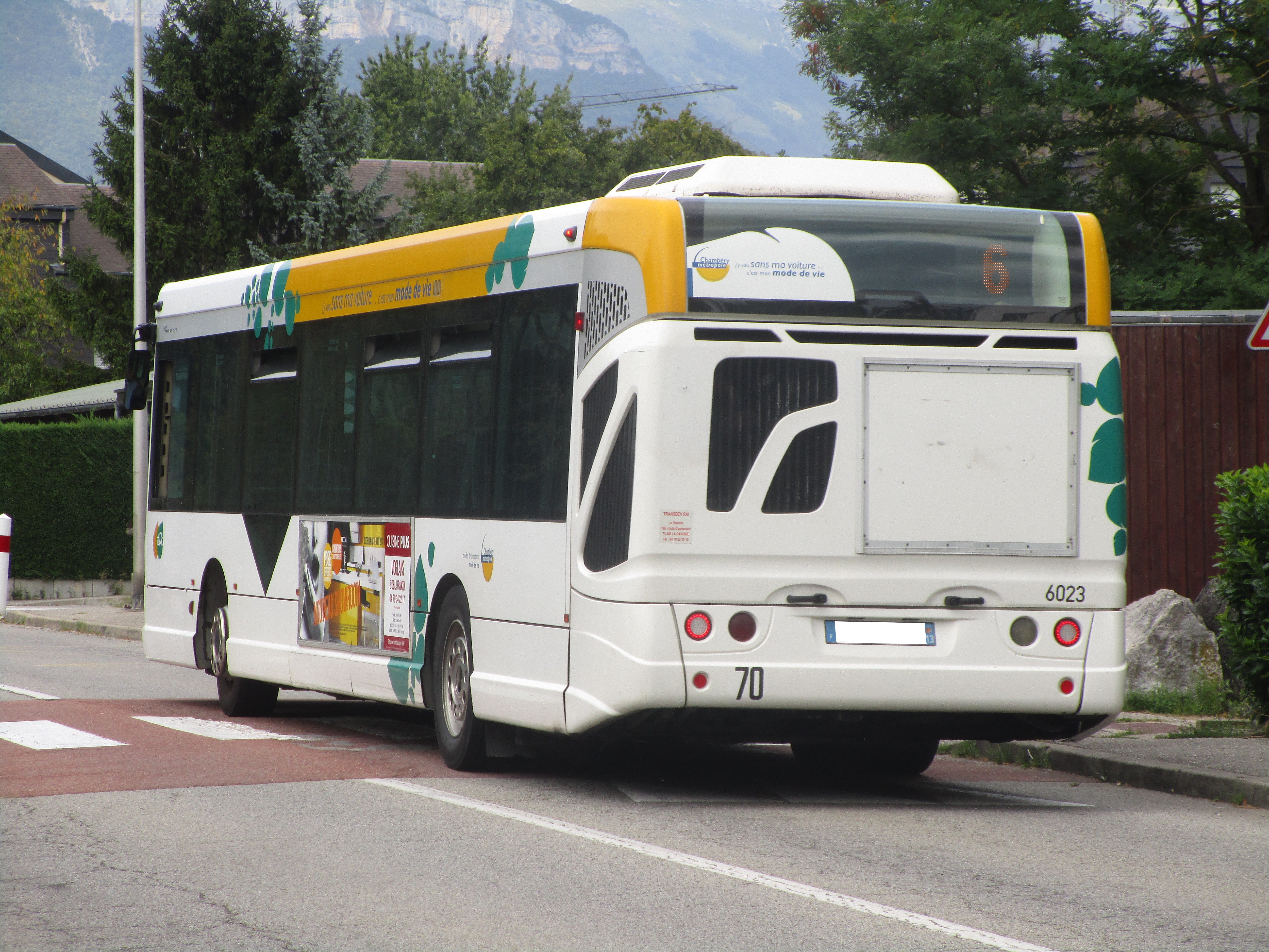 A Heuliez GX 327 (n°6023 of Transdev Rhône-Alpes Interurbain) running on Stac’s line 6 — Saint-Baldoph Centre, Saint-Baldoph↔Galion, Bassens — at the call Saint-Baldoph Centre (Saint-Baldoph, France) on August 30, 2017.